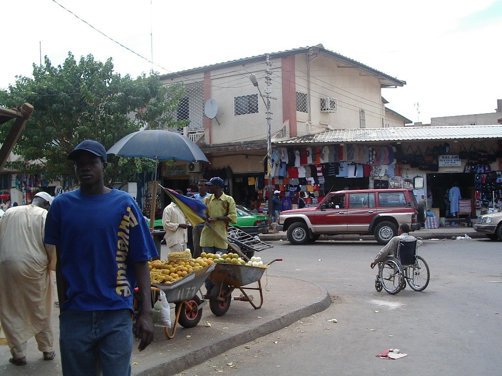 Albert Markett a Banjul 11:02 23 abr, 2005 . . Jolle (195833 octets) Automobiles from left to right: Renault 9, Nissan Patrol Y60, Mercedes Benz W124